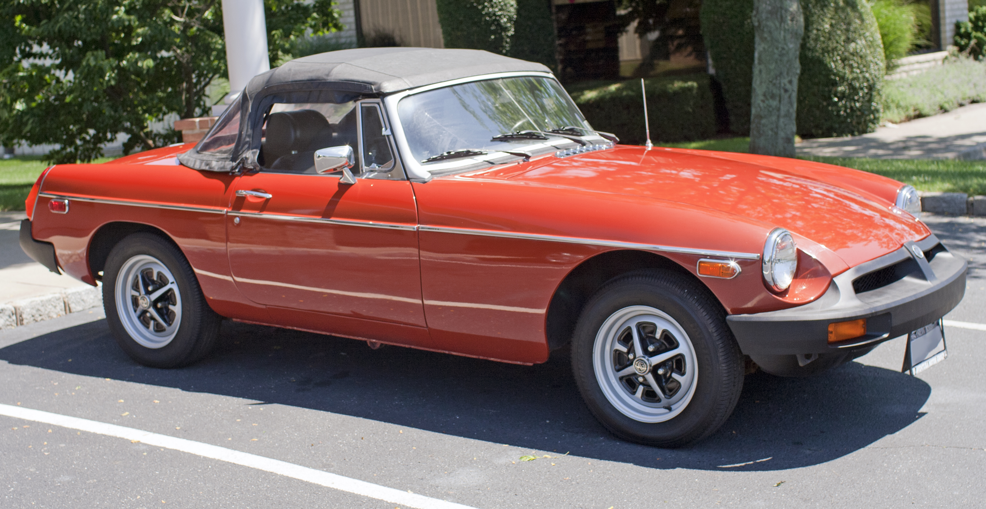 1975 MGB Convertible